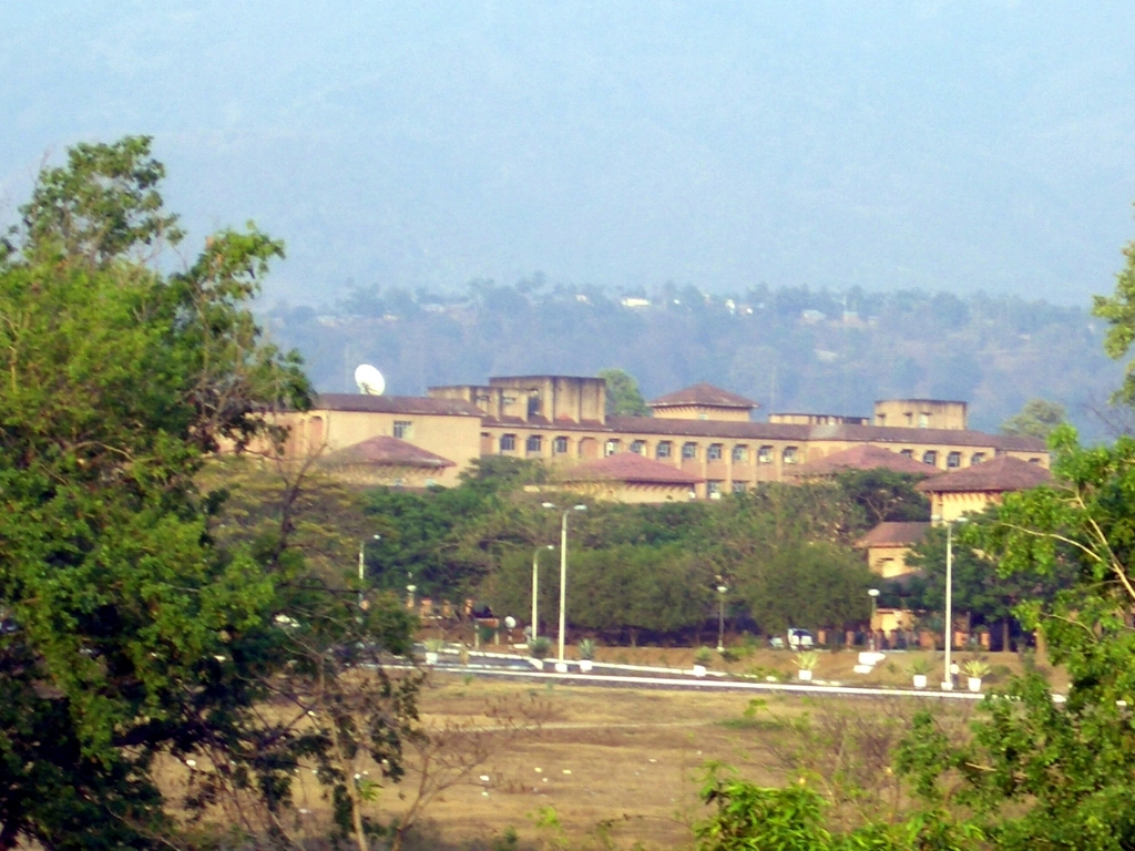 A picture of BPKIHS Medical College. Taken from the terrace of the boys' hostel.